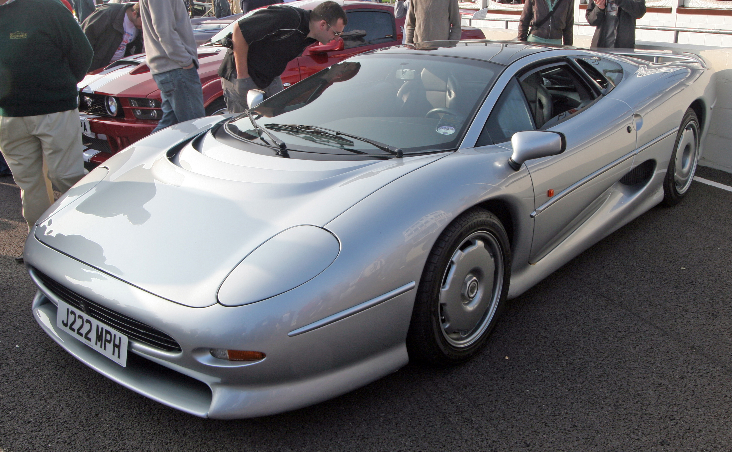 Goodwood Breakfast Club - Jaguar XJ220Goodwood Breakfast Club - Jaguar XJ220